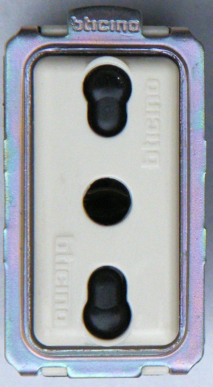 Italian socket for 10 A and 16 A plugs (CEI 23-50 P17/11)